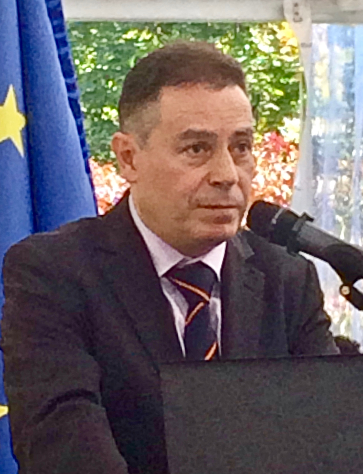 Ambasador Francisco Javier Sanabria